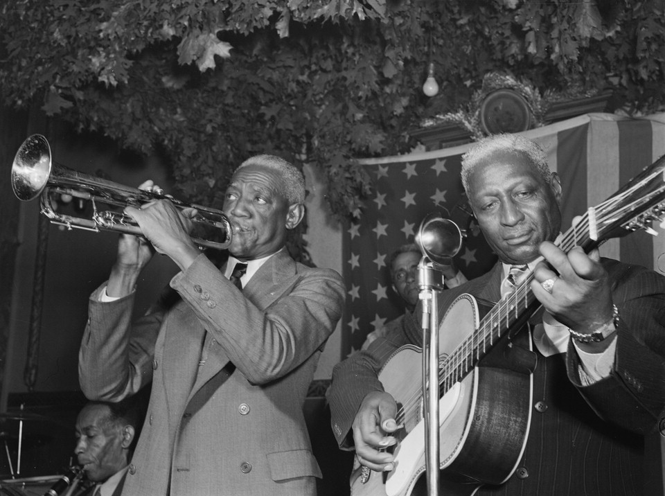 Portrait of Bunk Johnson, Leadbelly, George Lewis, and Alcide Pavageau, Stuyvesant Casino, New York, N.Y.